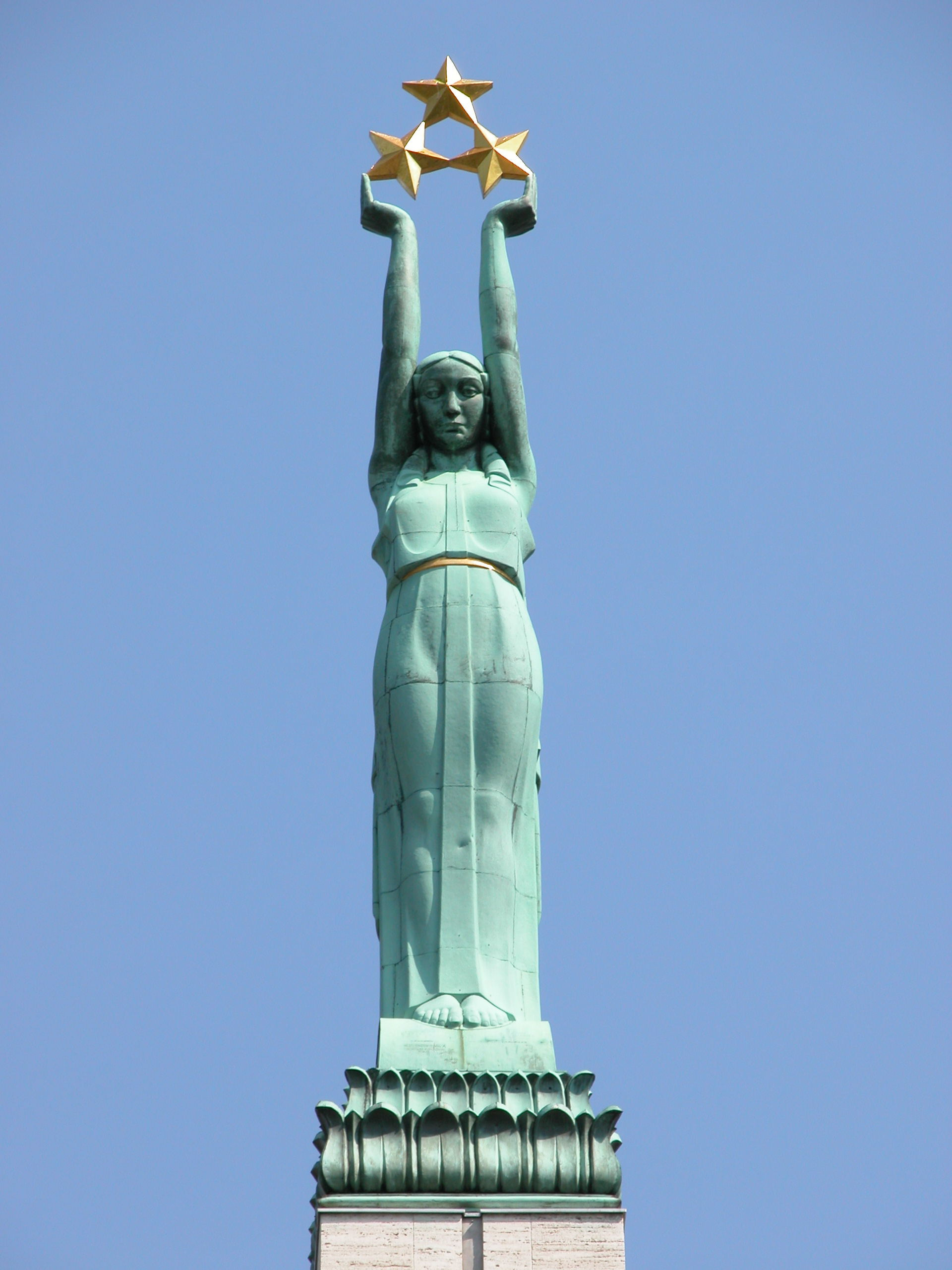 Freedom Monument in Riga by Kārlis Zāle (died in 1942)